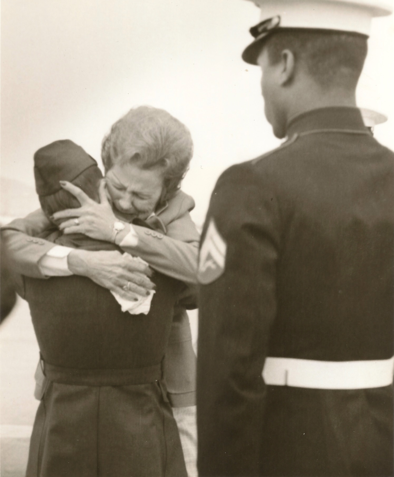 Kenneth Kraus Hugging his mother Andrews AFB 2-22-80